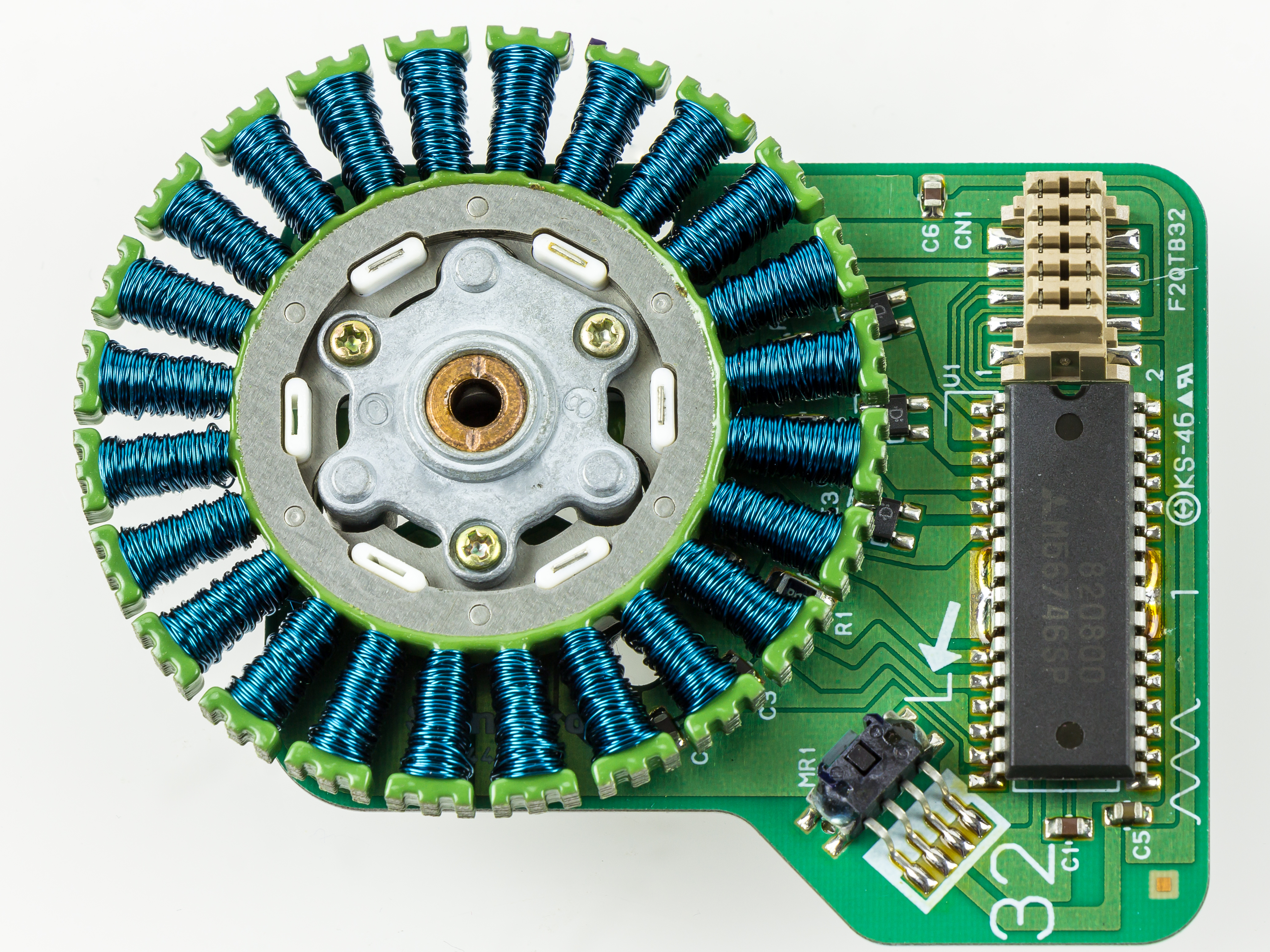 Medion MD8910 - Capstan motor